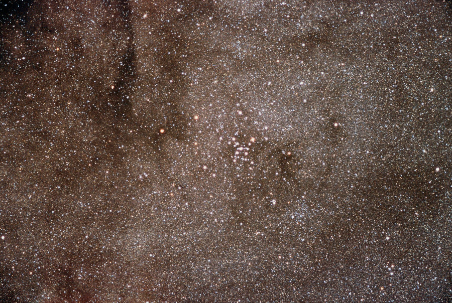 Open star cluster Messier 7 also called Ptolemy Cluster, photographed at La Palma, Roque de los Muchachos (Degollada de los Franceses). Photo taken the following equipement: Camera/Telecope: Pentax SDHF 500 6.7/500 on GP/DX, tracing ST4 at 600mm (Sonnar 4/300 with 2x tele converter) Exposure: 40 min Film: Kodak E200 35mm (Push to 600 ASA) Scanner: Scan service Processing: Removed vignetting, colour and contrast correction. additional remark: faintest object visible at 6.5 mag